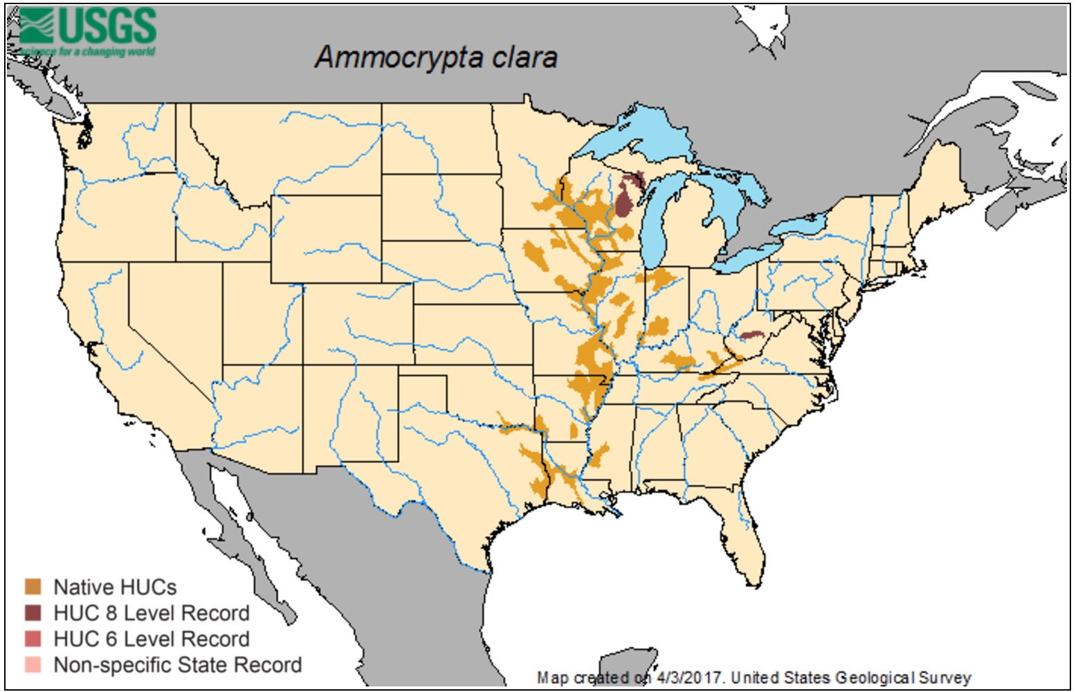 The general habitat of the Western Sand Darter